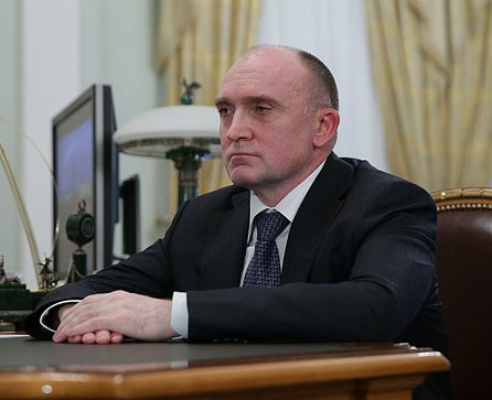 Boris Alexandrovich Dubrovsky. Photo by Press-service of President of Russia, 15th January, 2014.